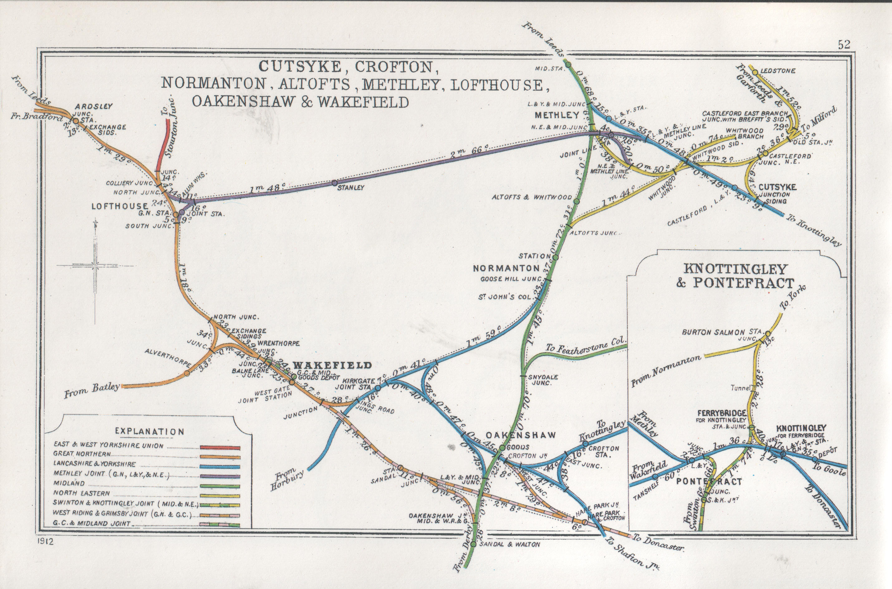 Pre Grouping railway junction around Cutsyke, Crofton, Normanton, Altofts, Methley, Lofthouse, Oakenshaw & Wakefield